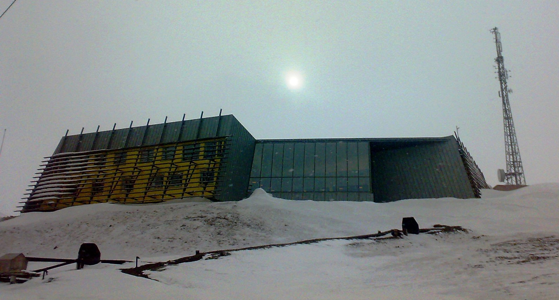 Office of the Governor of Svalbard (Sysselmannen), Longyearbyen